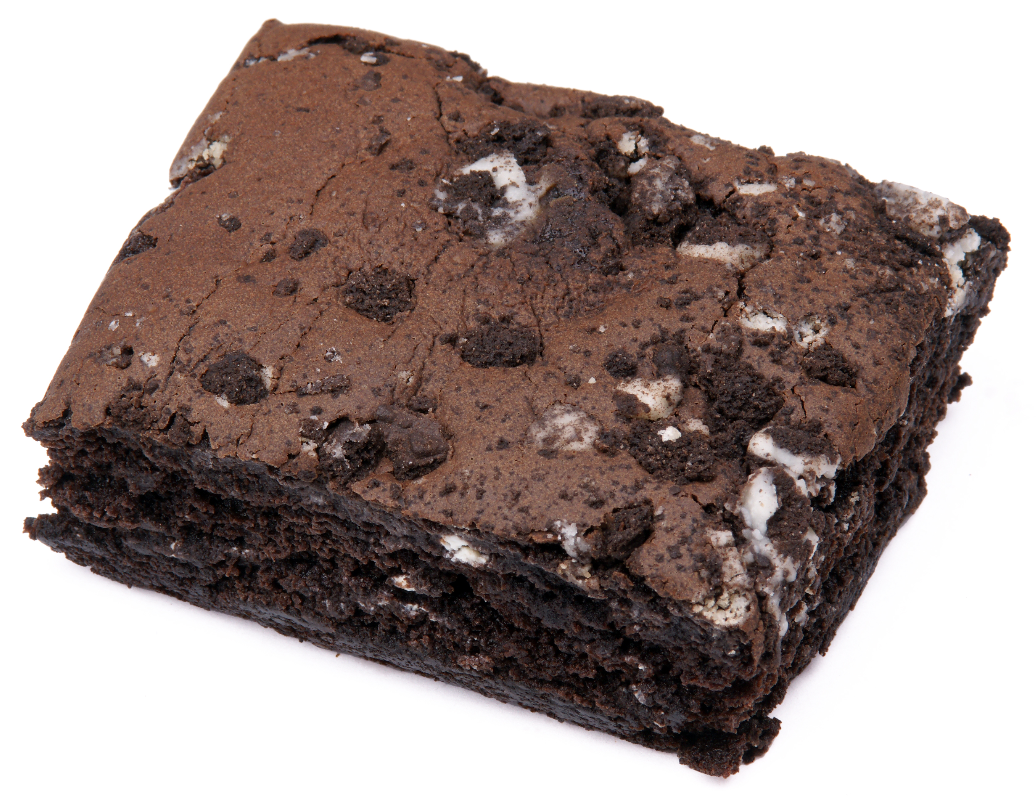 An Oreo Brownie, an official version made by Nabisco.